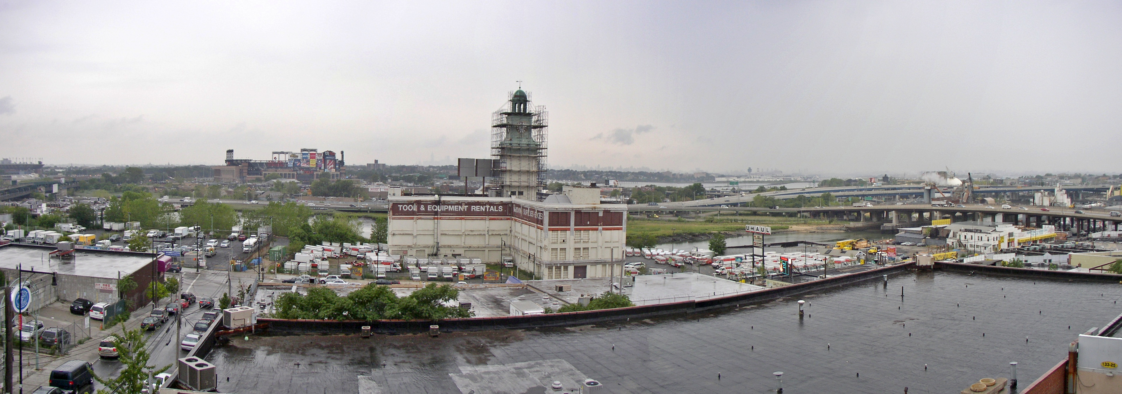 Citi Field, Northern Blvd, Van Wyck Expressway, and Willets Point panorama view from Flushing 36th Rd